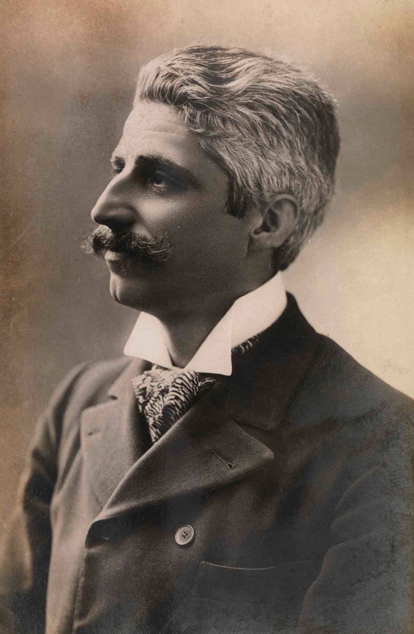 Dr. Duarte Leite, c. 1910s.